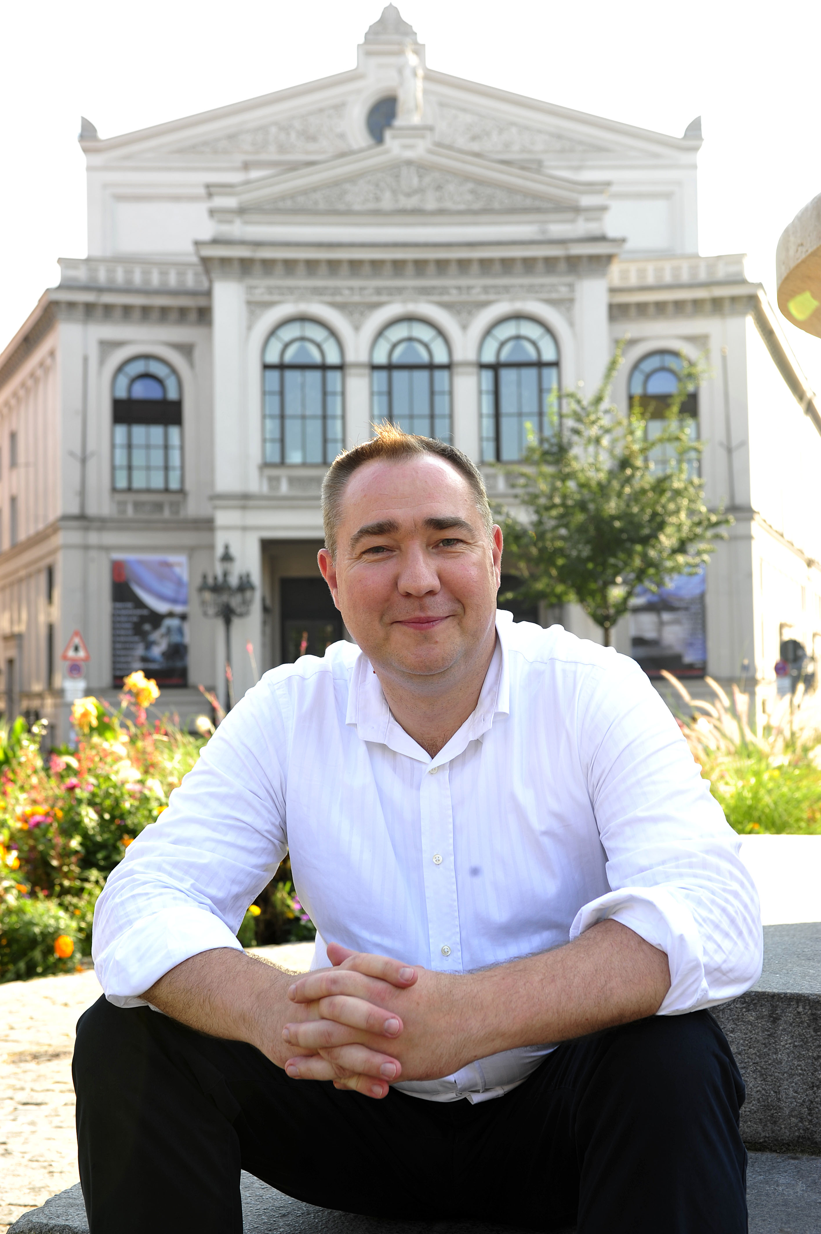 Beppo Brem am Gärtnerplatz